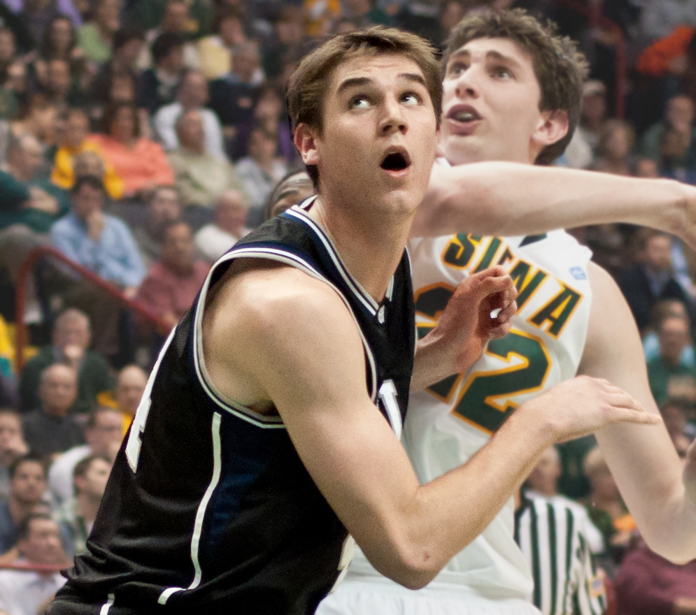 Butler's Andrew Smith battles Siena's Ryan Rossiter for a rebound on November 23, 2010.